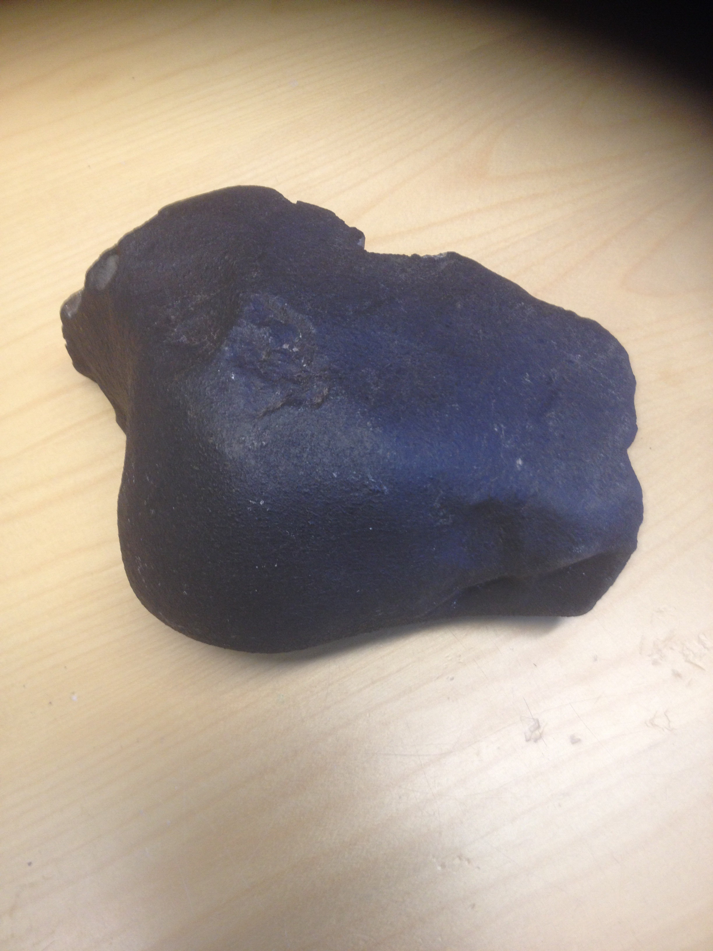 This is a picture of the Hedeskoga meteorite, a photo I took myself at Lunds university